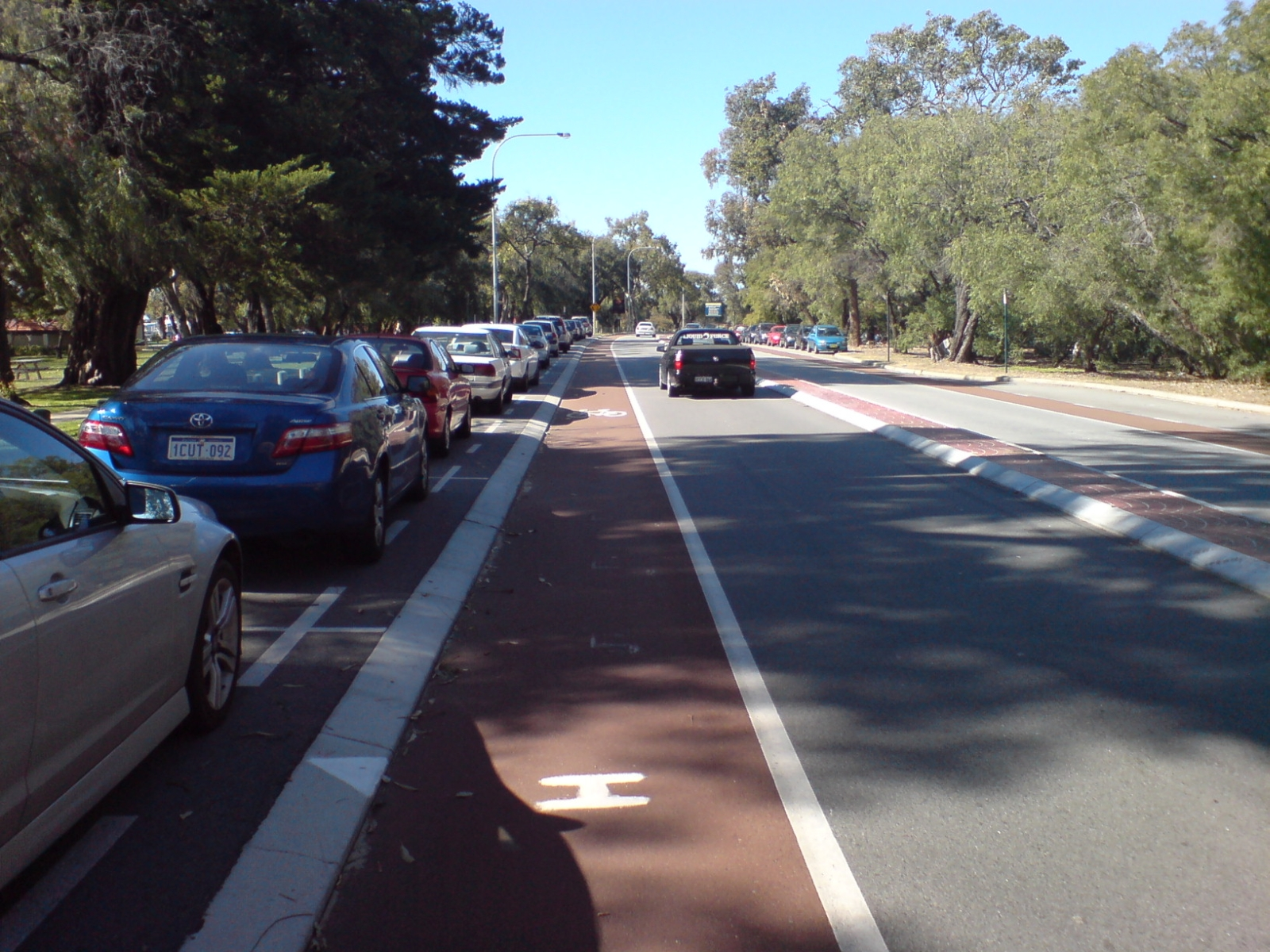 A cycle lane with strange raised parallel parking in Perth Australia. Maybe the raised parking is to encourage drivers to fully get off the cycle lane? This was seen somewhere along the Swan River, northern side, about halfway between Fremantle and Perth CBD.